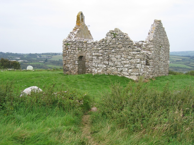 Old Lligwy Chapel/Hen Capel Llugwy A view of the medieval chapel of ease taken from just outside its perimeter wall.